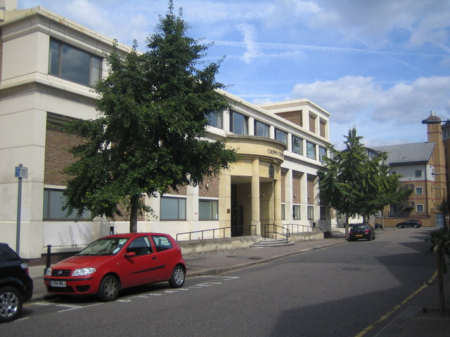 Southwark: Blackfriars Crown Court, Pocock Street, SE1 Extremely confusingly to the stranger, Blackfriars Crown Court is not in Blackfriars, north of the River Thames, but south of the river in Southwark